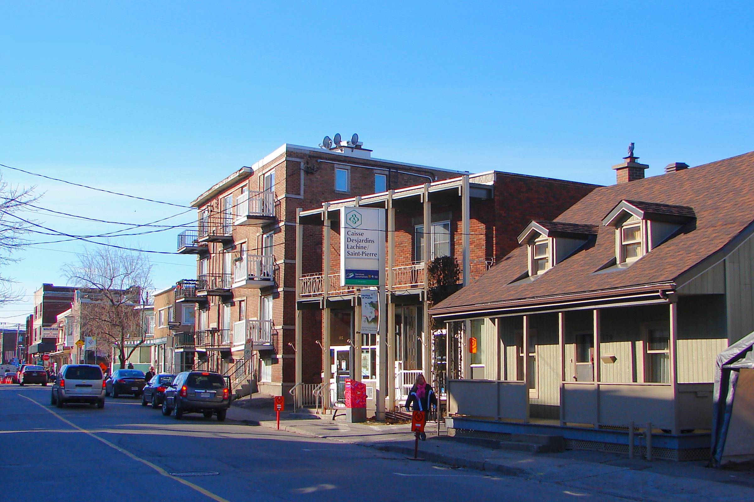 St-Jacques Street in Ville Saint-Pierre (Borough of Lachine, Montreal), Quebec, Canada